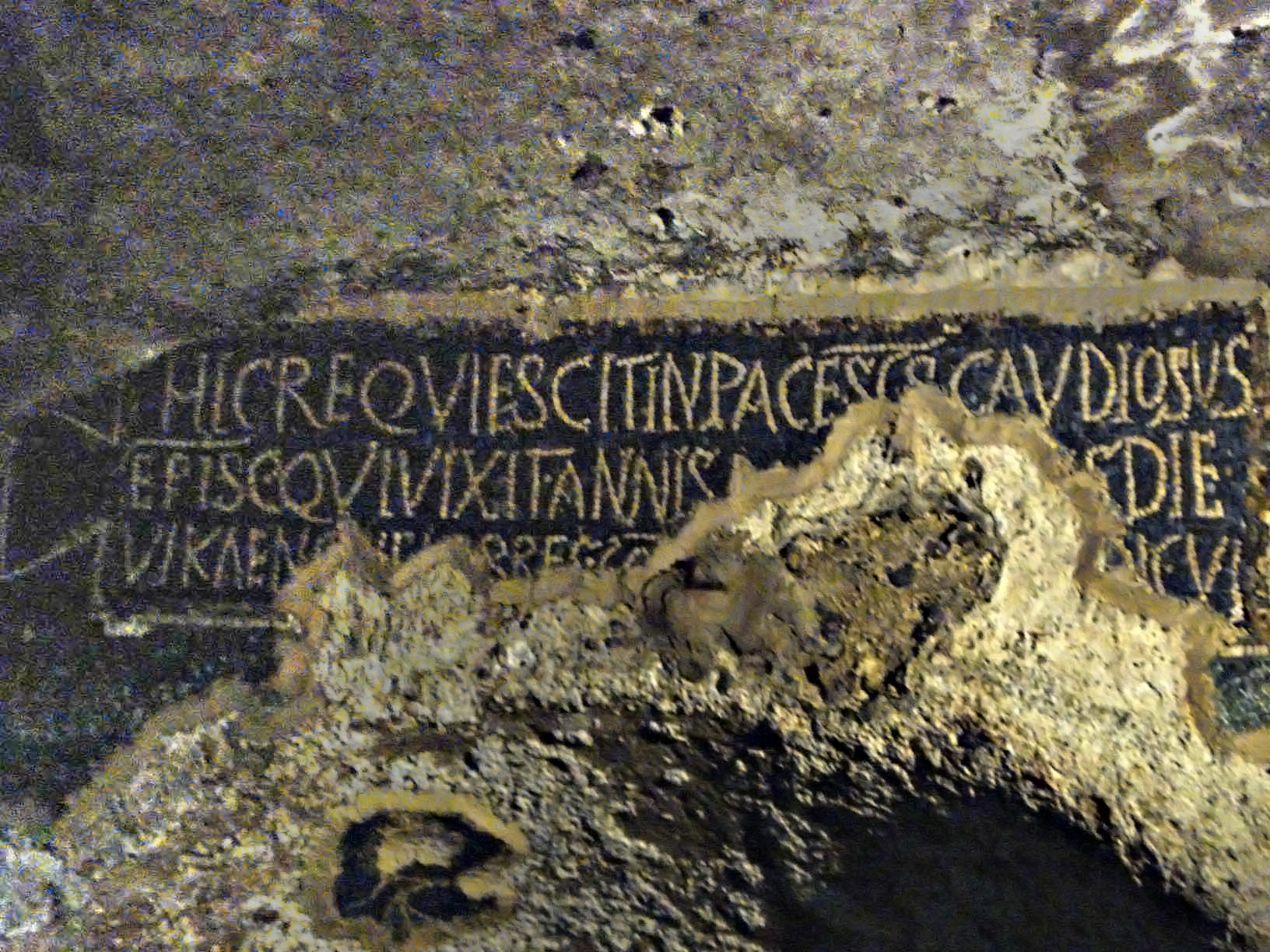 Mosaic over San Gaudioso's arcosolium